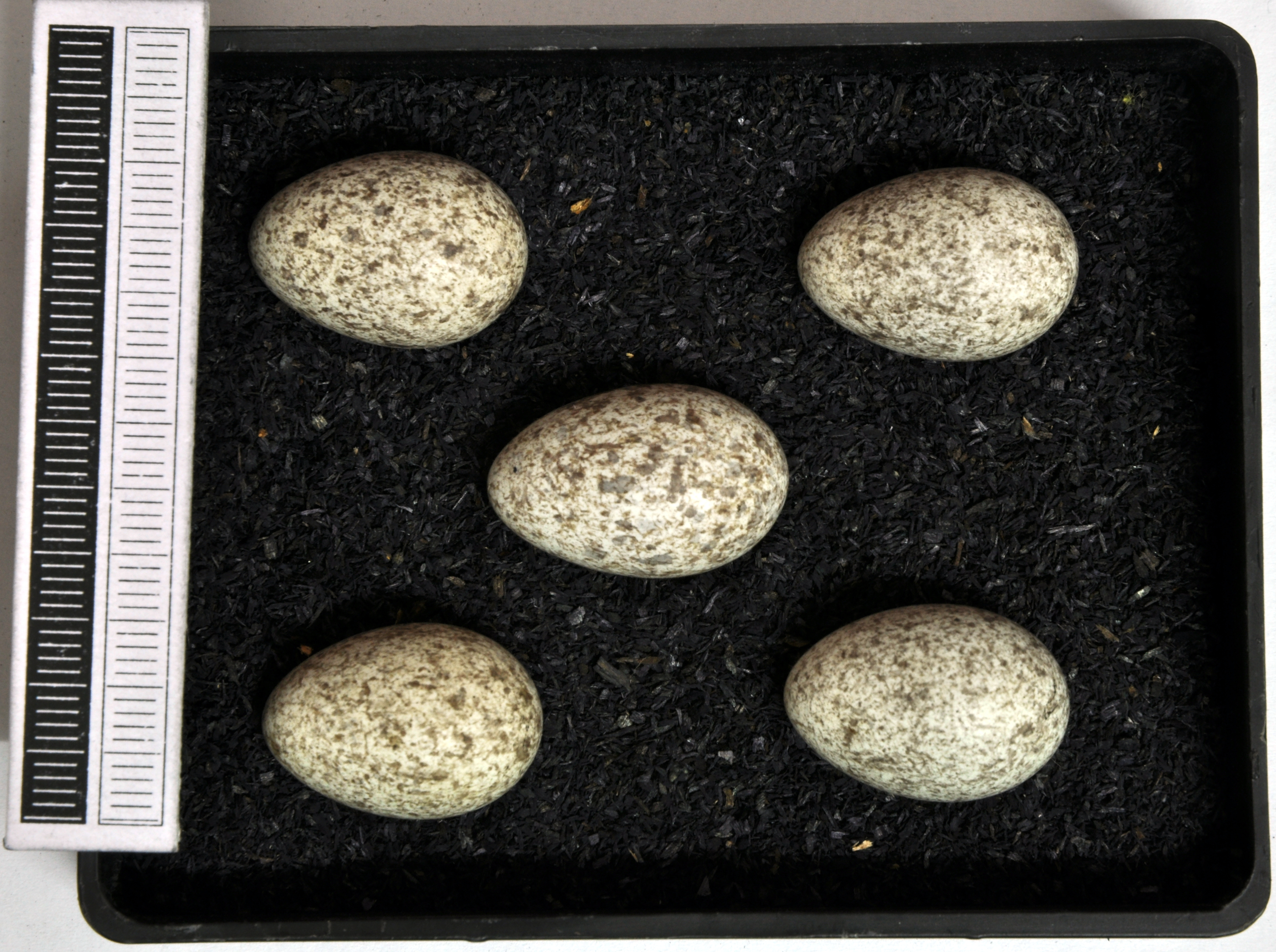 House sparrow Passer domesticus, egg, Coll. Museum Wiesbaden, Origin: St. Gilles, France, 13.06.1973, leg. W. Abelmann